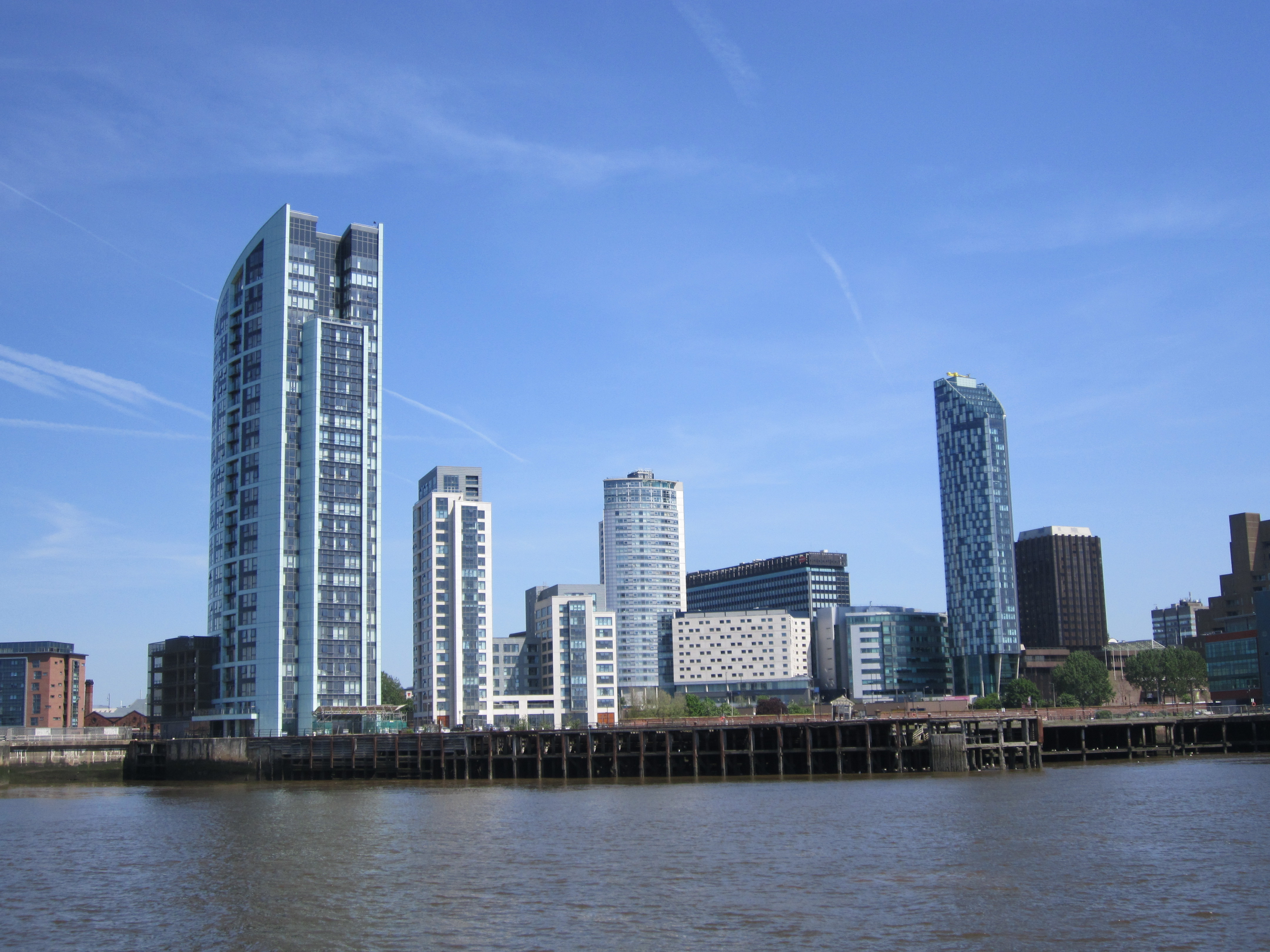 Buildings near Princes Dock, Liverpool, England. As seen from the ferry on the river Mersey.